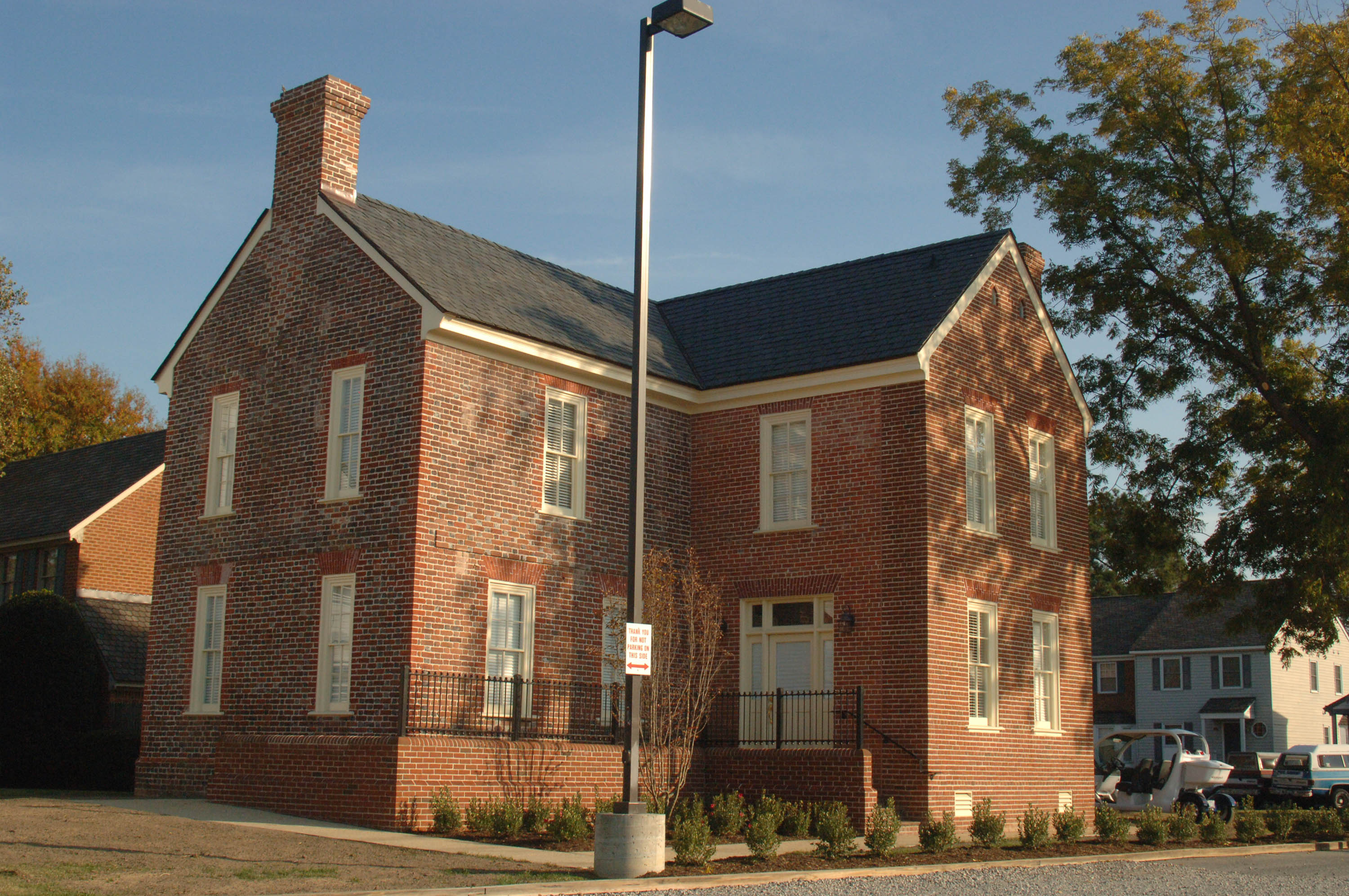 1753 FLEMISH BOND GEORGIAN- OLDEST HOUSE IN HAMPTON; HERE THE IMPALED HEAD OF BLACKBEARD WAS DISPLAYED AS A WARNING TO OTHER PIRATES